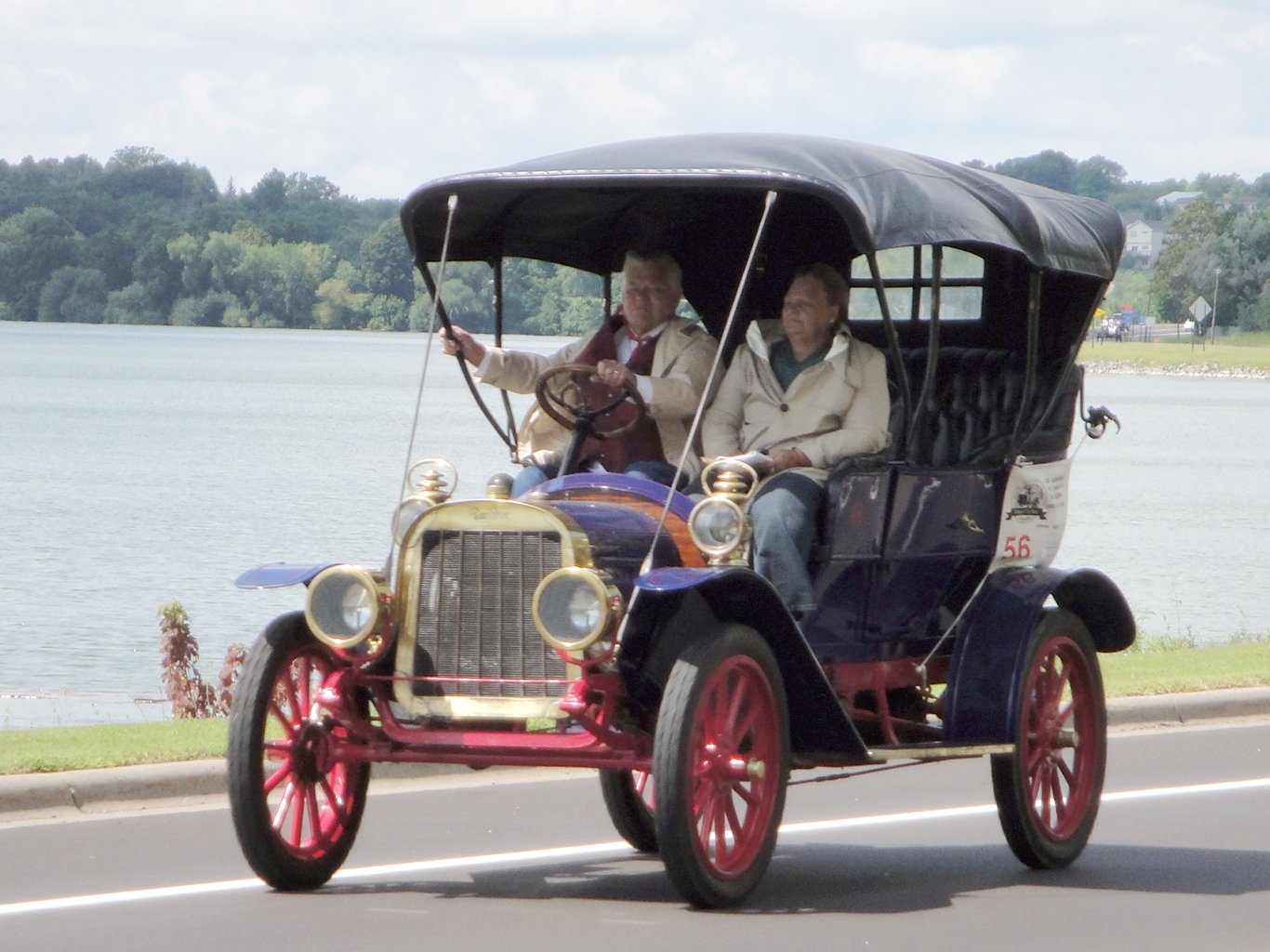 Silver Anniversary New London to New Brighton Antique Car Run, Buffalo Minnesota